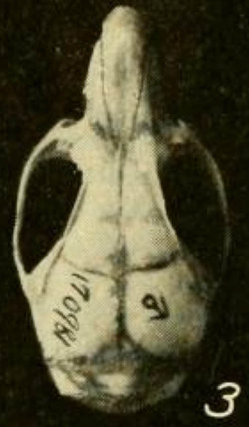 Dorsal view of skull of Oryzomys talamancae (now Transandinomys talamancae). This is specimen USNM 170981, an adult male from Gatun, Panama.